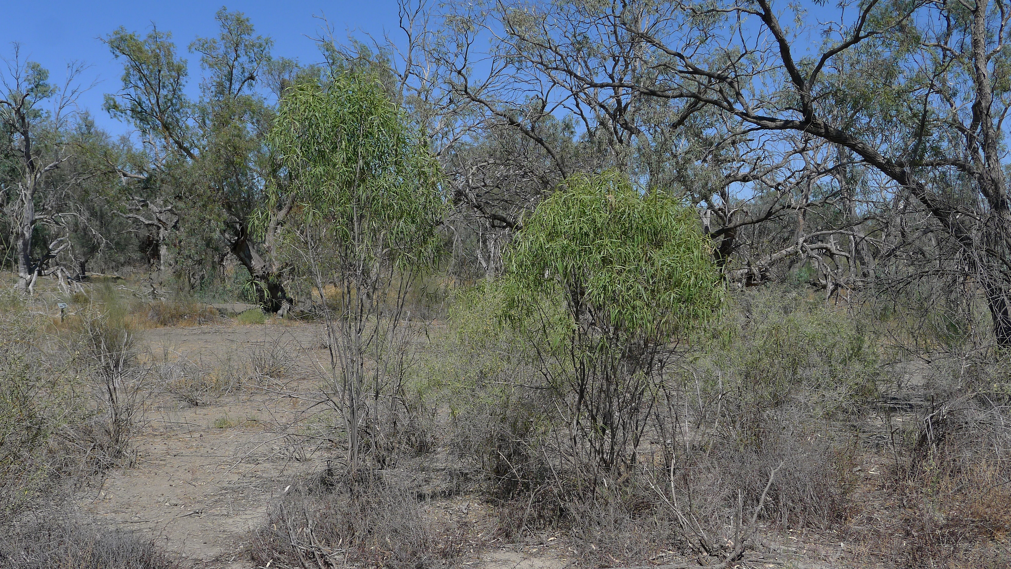 Emu Bush, Eremophila longifolia. Kinchega National Park, NSW, Australia, November 2014.